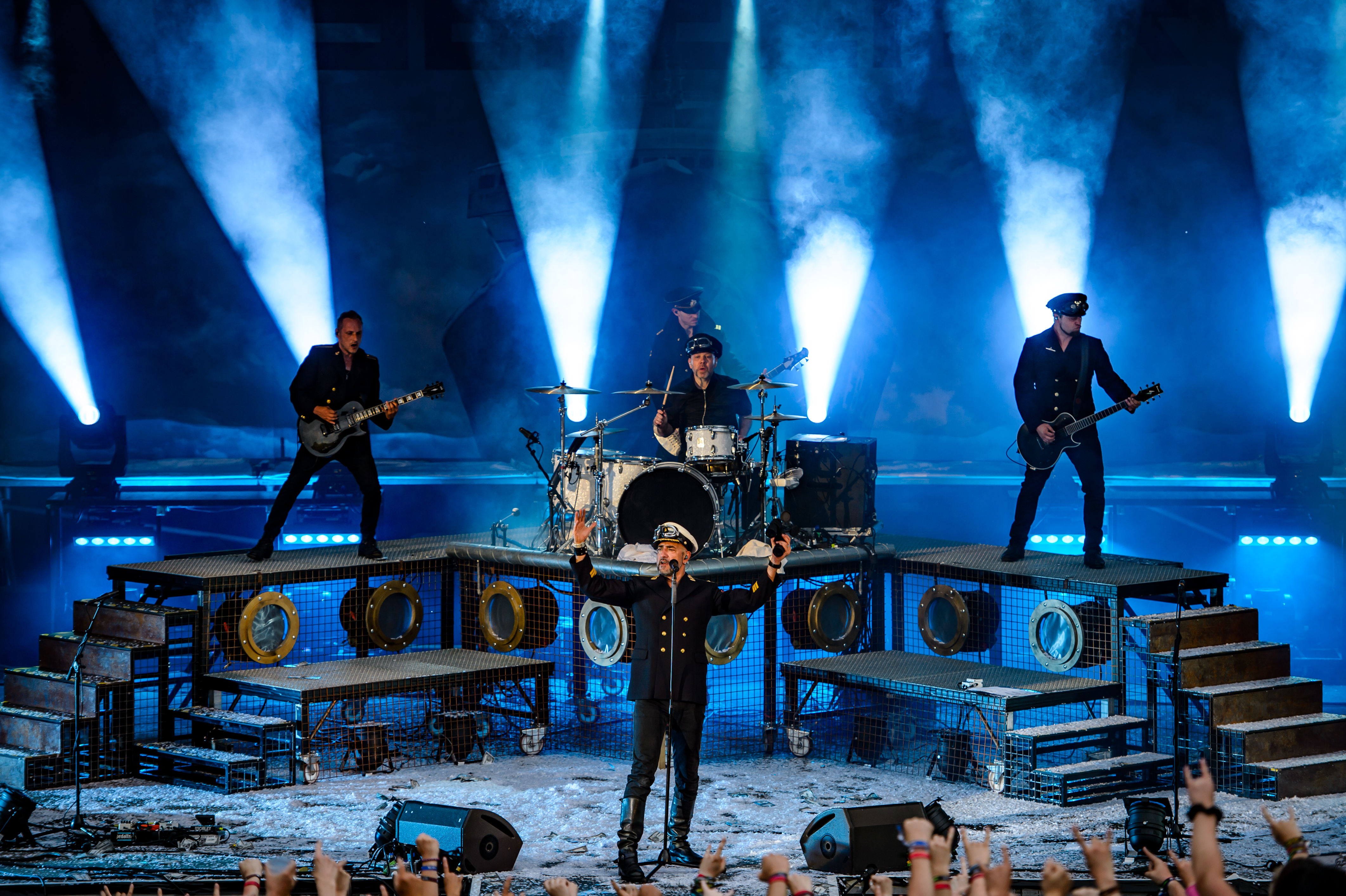 Eisbrecher; RockFels 2016 - Loreley